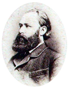 Alfred Pribram (1841-1912), Professor der Medizin in Prag